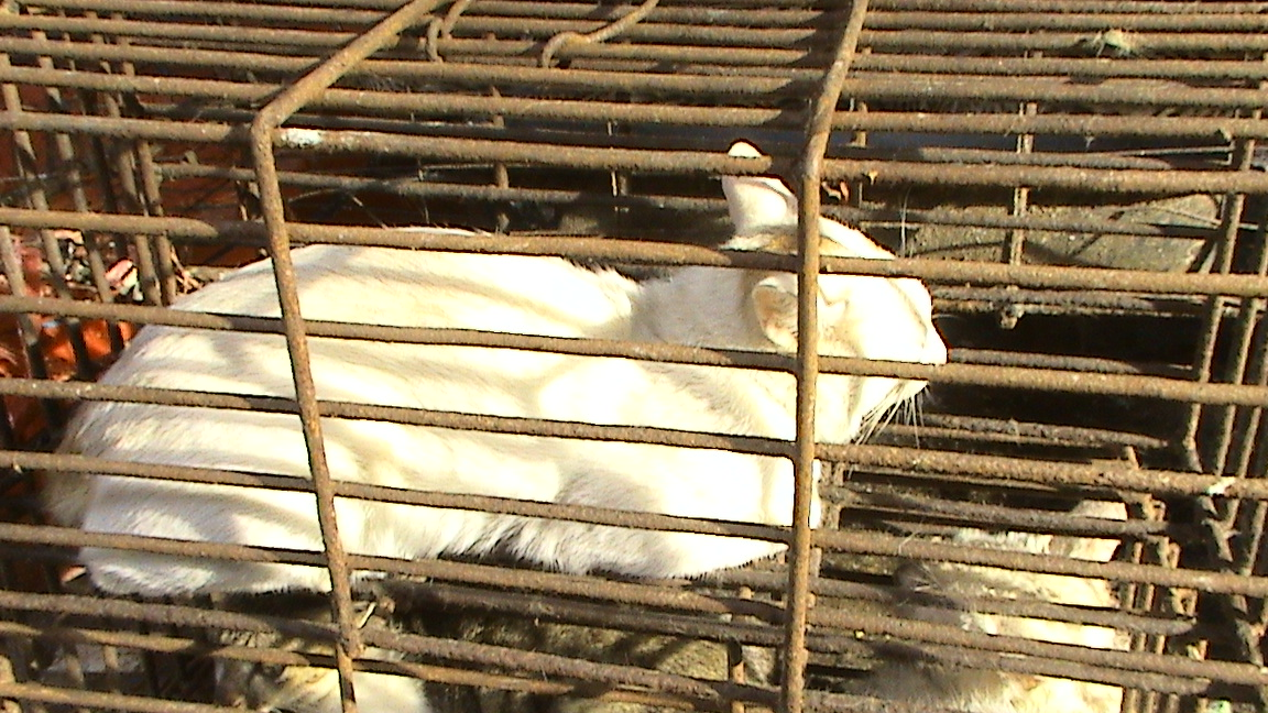 Cats before slaughter for cat meat. East Asian market.